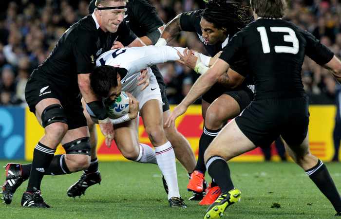 French fly-half François Trinh-Duc (no. 21) attempts to get past an opponent while Ma'a Nonu tackles him from behind and Conrad Smith (no. 13) is watching over